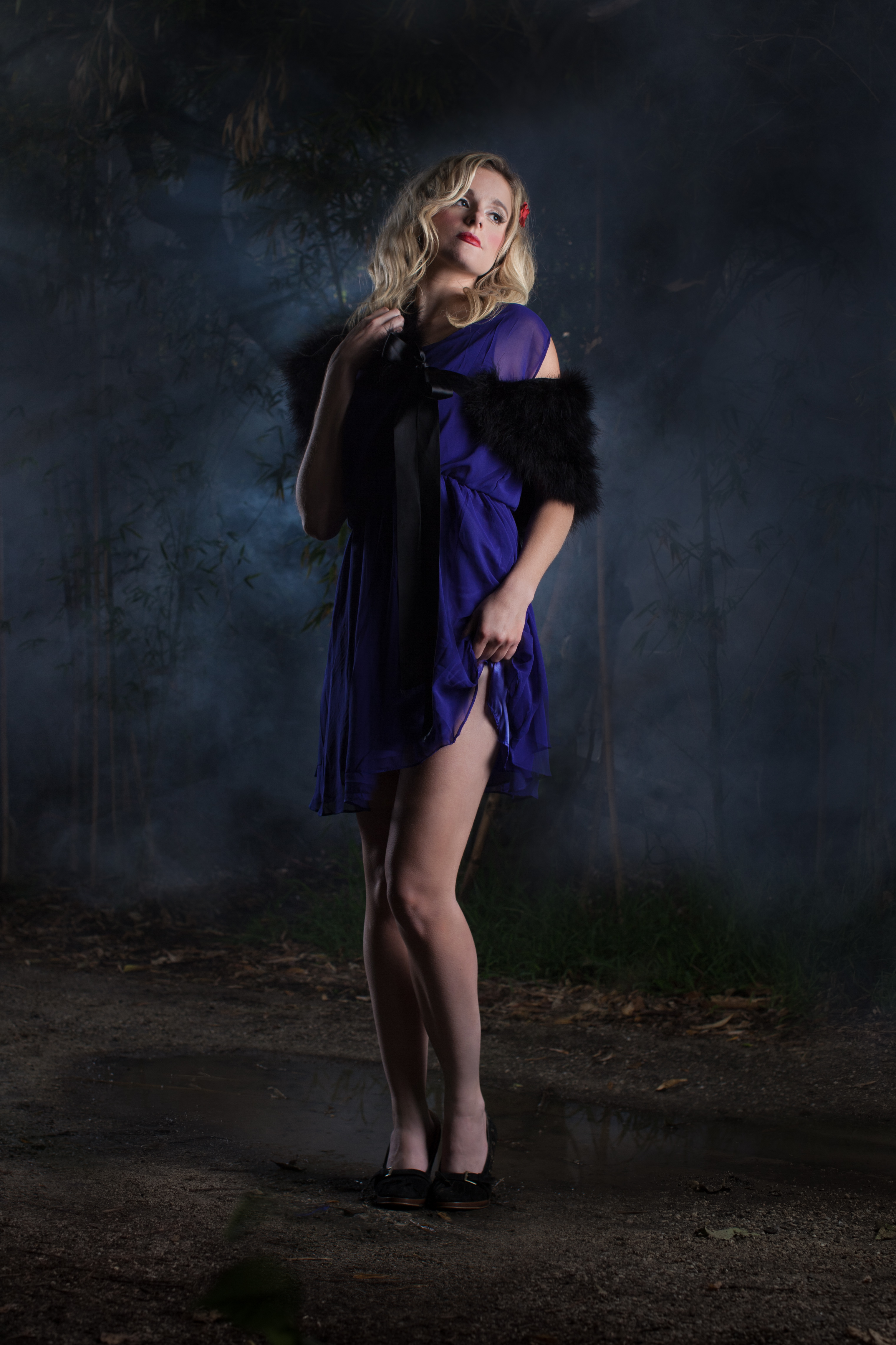 Photo of Erica Rhodes... Read mor about this photo shoot of Erica Rhodes at